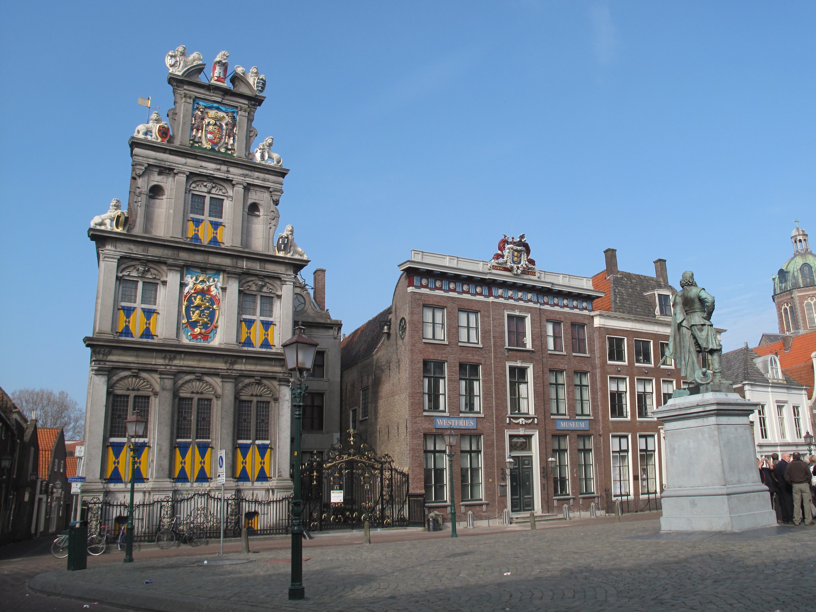 Hoorn, museum: West-Fries museum and statue JP Coen